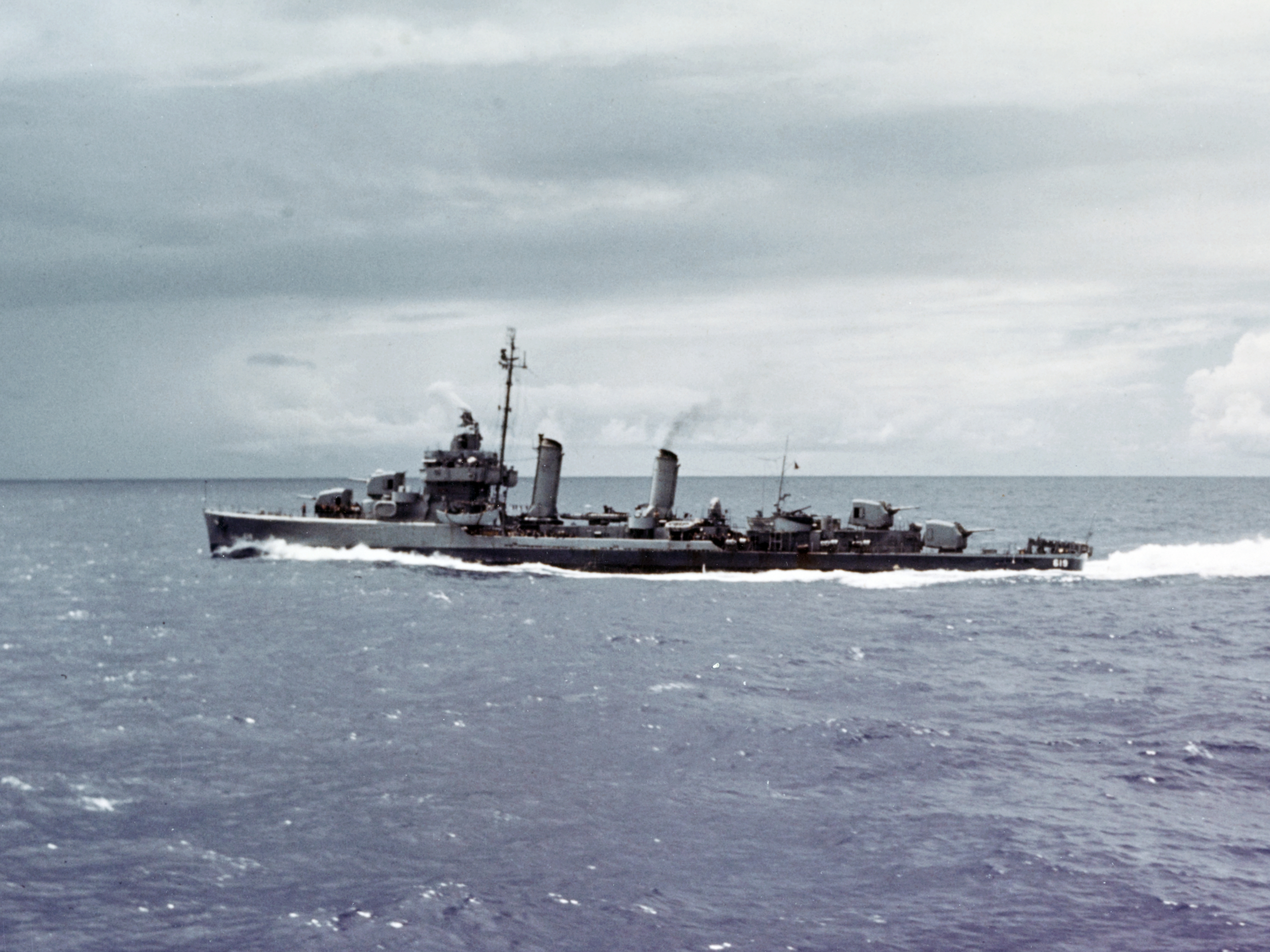 The U.S. Navy destroyer USS Edwards (DD-619) underway in the Caribbean Sea during her shakedown period, circa November 1942.